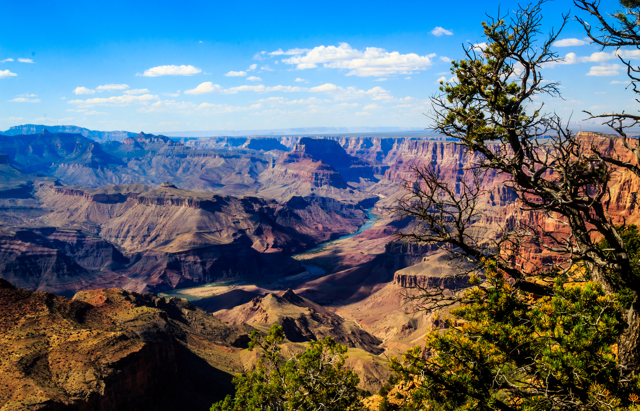 500px provided description: Canyon River Tree [#landscape ,#mountains ,#water ,#nature ,#river ,#tree ,#arizona ,#canyon ,#grand canyon ,#colorado]